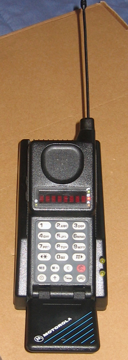 An Original 1989 Motorola MicroTAC in black. The phone is from Ross Padluck's personal collection.